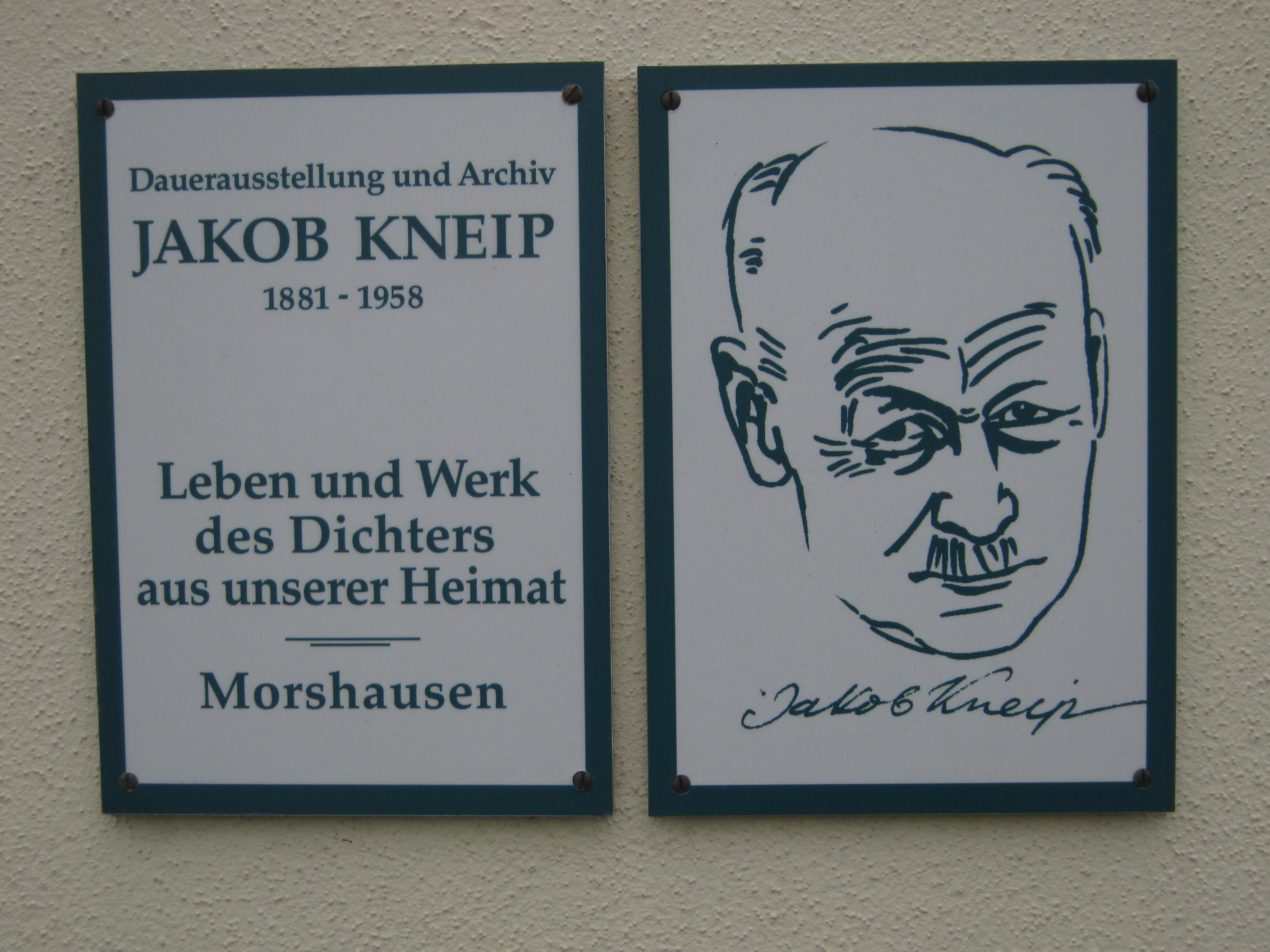 Jakob Kneip